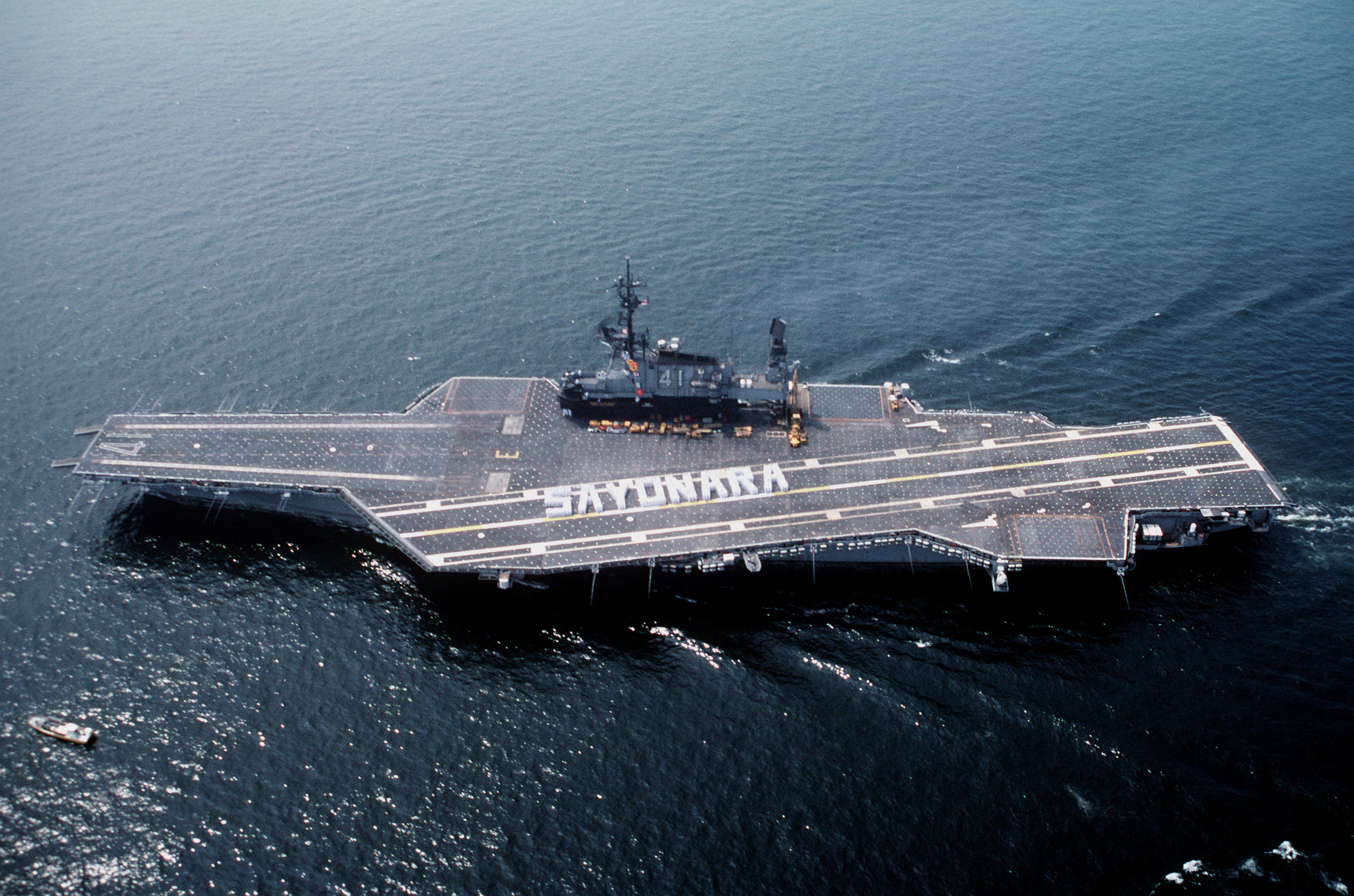 Sailors form a message of farewell on the flight deck of the aircraft carrier USS MIDWAY (CV-41) as the ship heads out to sea after leaving U.S. Naval Station, Yokosuka, Japan, for the last time. The MIDWAY, which has been based in Japan since 1973, will be replaced by INDEPENDENCE (CV-62)